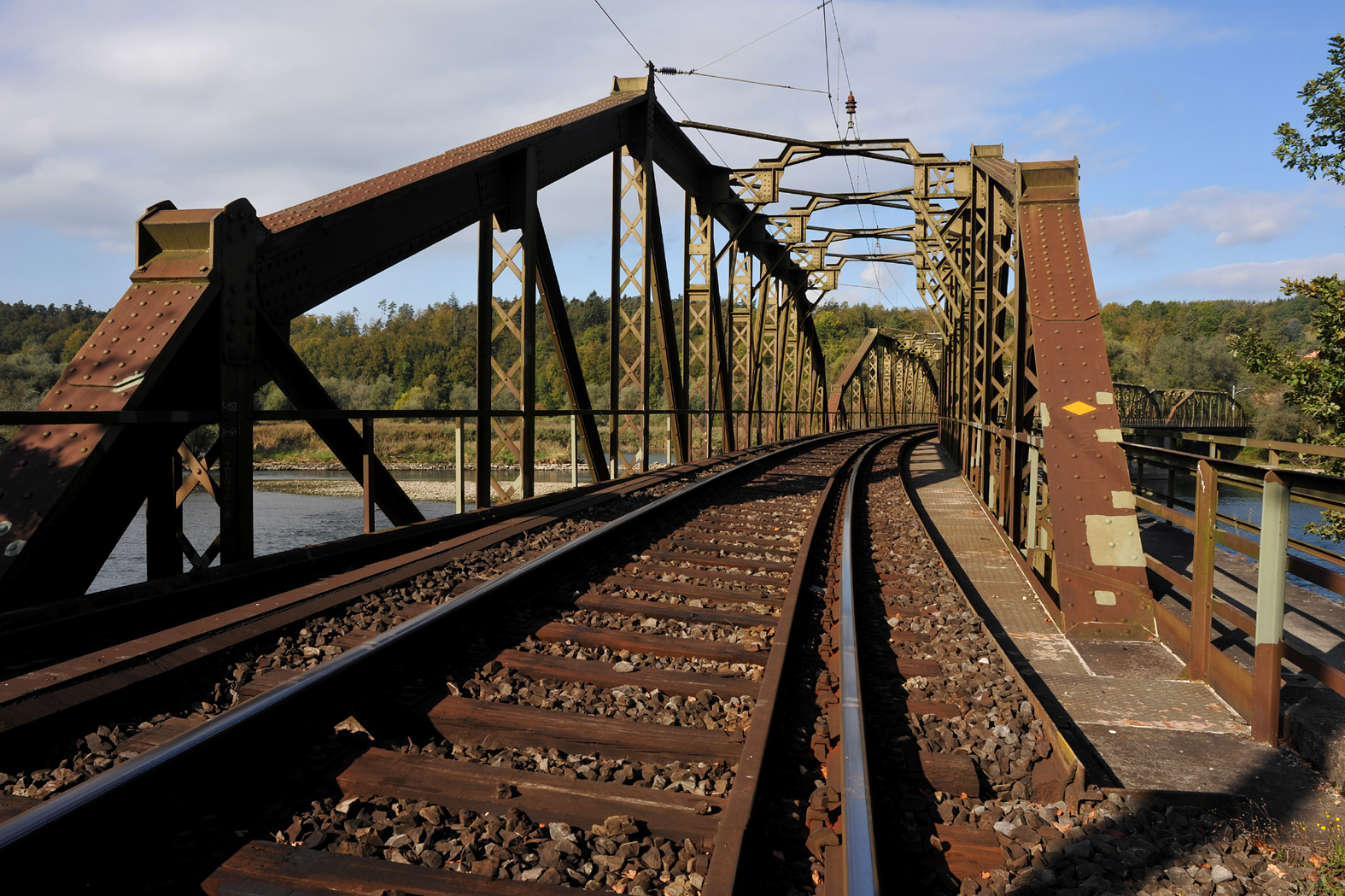 SBB bridge crossing the Aare between Koblenz and Felsenau; Aargau, Switzerland.